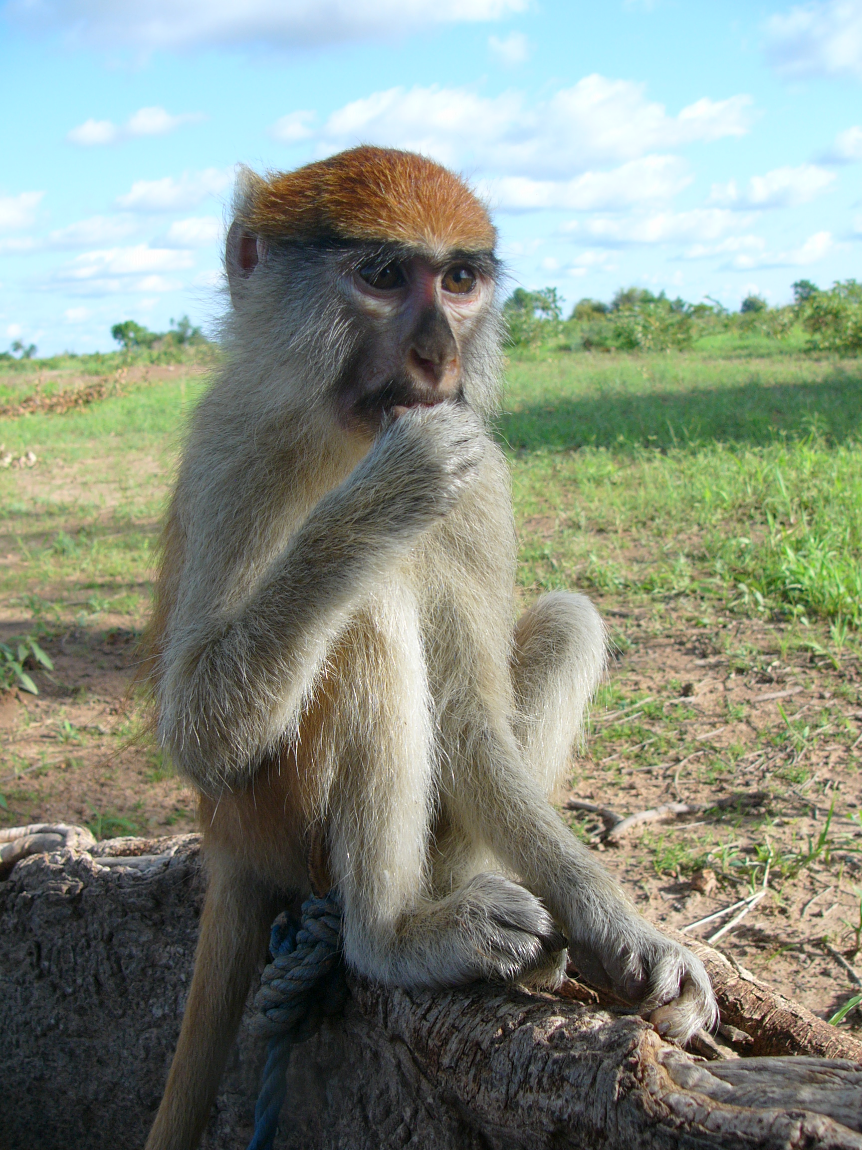 Erythrocebus patas patas Monkey. Female called "Ital" in ouagadougou,burkina-faso,west-africa.